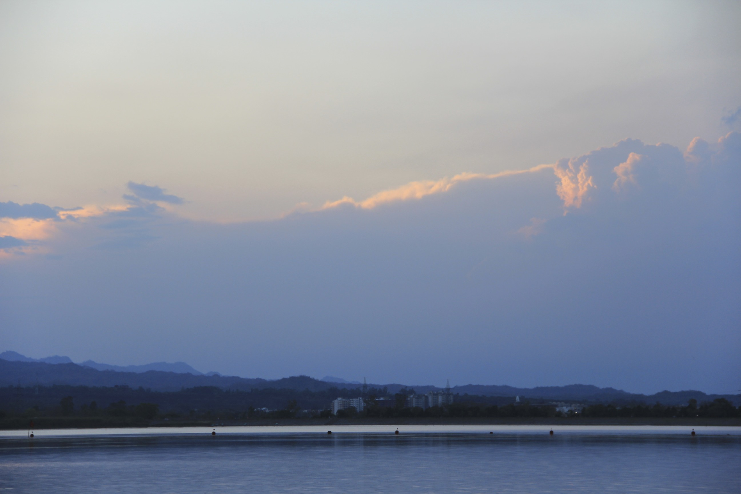 This picture is taken in Chandigarh on Sukhna lake in very early morning